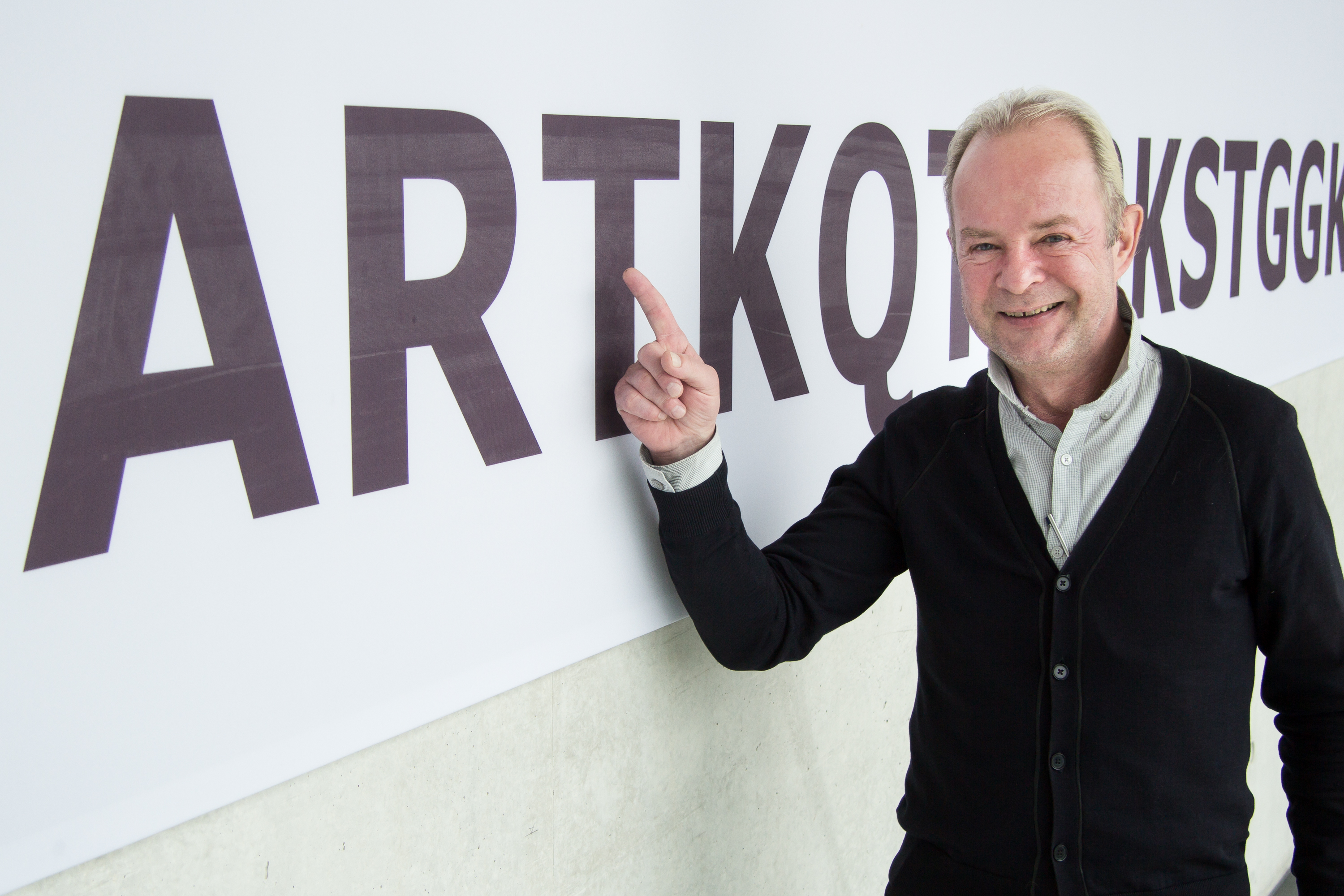 Picture of Thomas Jenuwein in April 2019